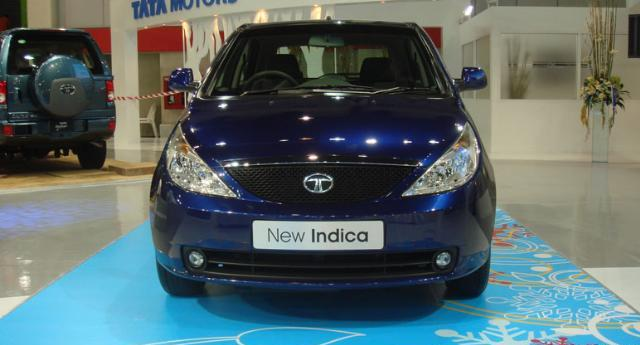 Tata Indica